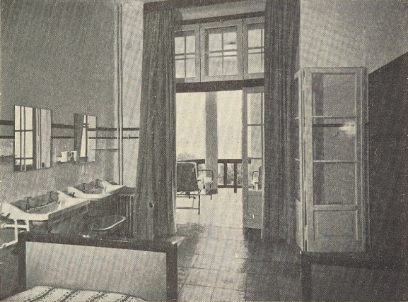 Bedroom with a private balcony, inside the Sanatório das Penhas da Saúde (Penhas da Saúde Sanatorium), near the city of Covilhã, in Portugal. This image was published in the Gazeta dos Caminhos de Ferro magazine No. 1398, of 16th March 1946, and scanned by the Hemeroteca Municipal de Lisboa.